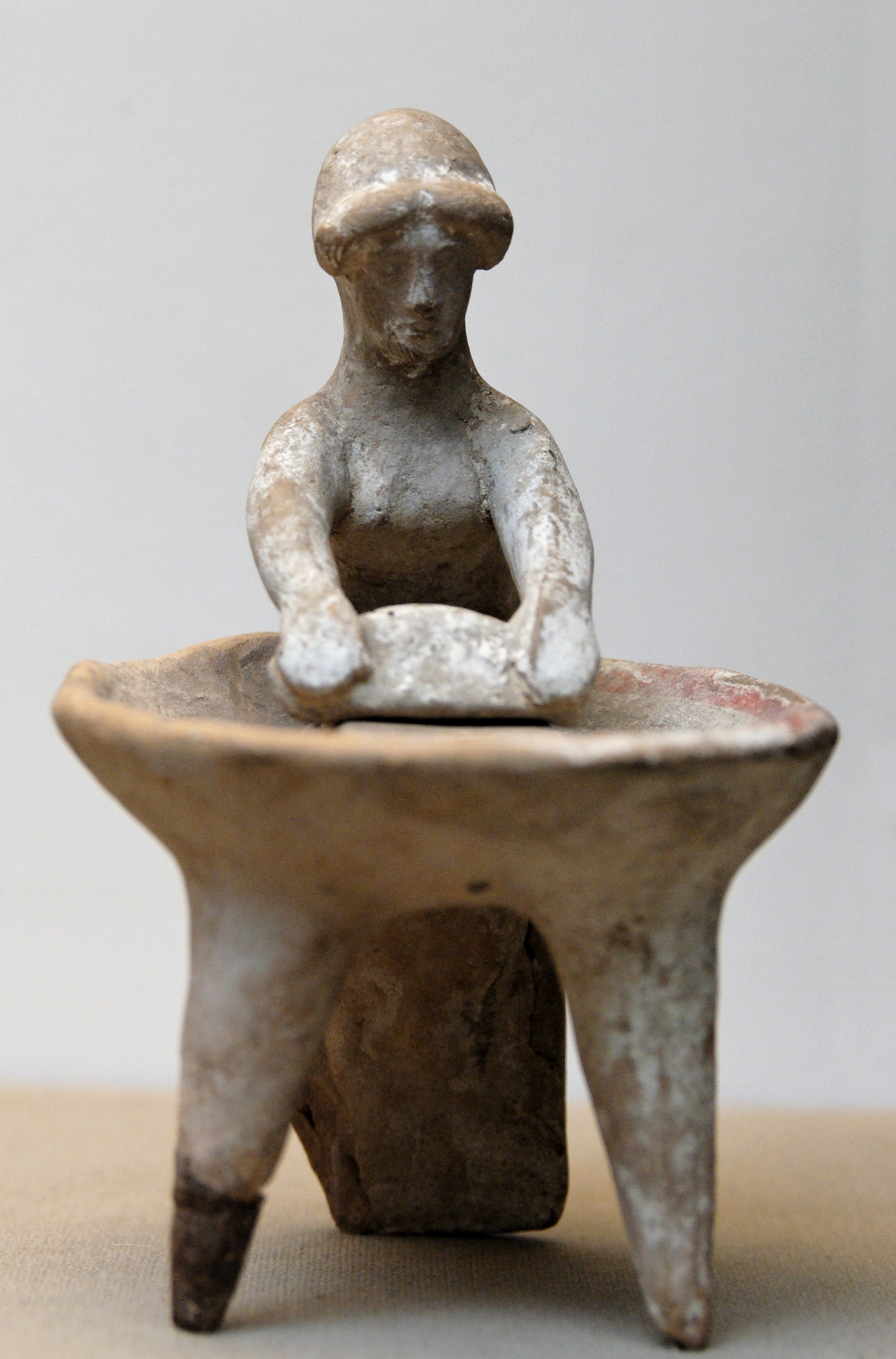 Woman grinding weat in a basin, Greek artwork.